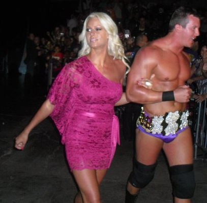 Ted DiBiase and Maryse